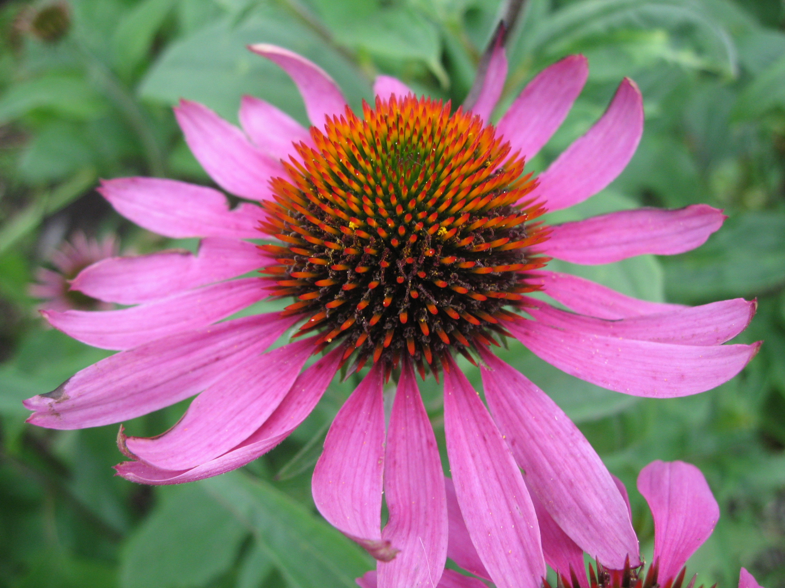 Echinacea purpurea (Eastern purple coneflower; syn. Brauneria purpurea (L.) Britt., Echinacea purpurea (L.) Moench var. arkansana Steyermark, Rudbeckia purpurea L.) is a species of flowering plant in the genus Echinacea. Recognizable by its purple cone-shaped flowers, it is native to eastern North America and present to some extent in the wild in much of the eastern, southeastern and midwest United States. and often known as the purple coneflower.